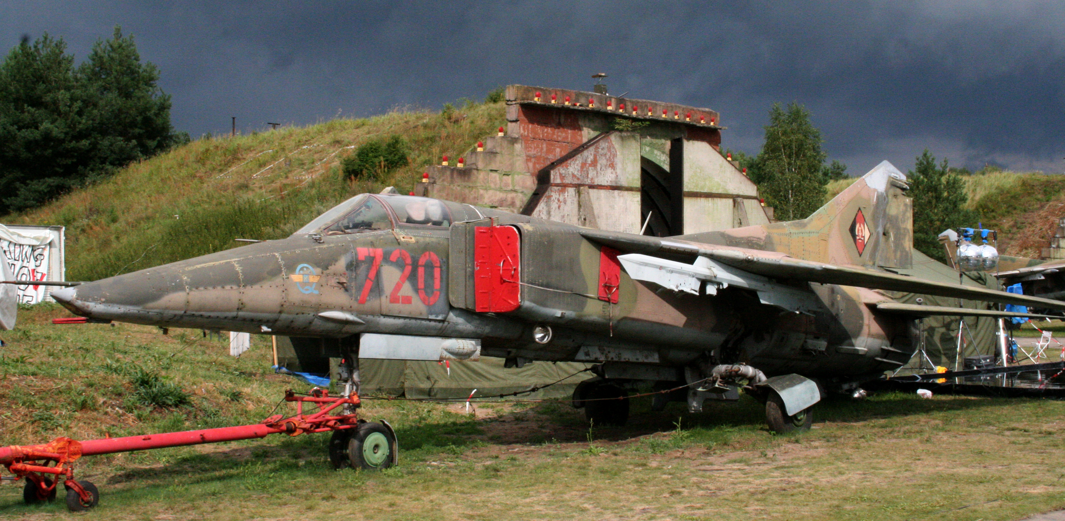 Chaos Communication Camp 2007 in Finowfurt near Berlin, Germany